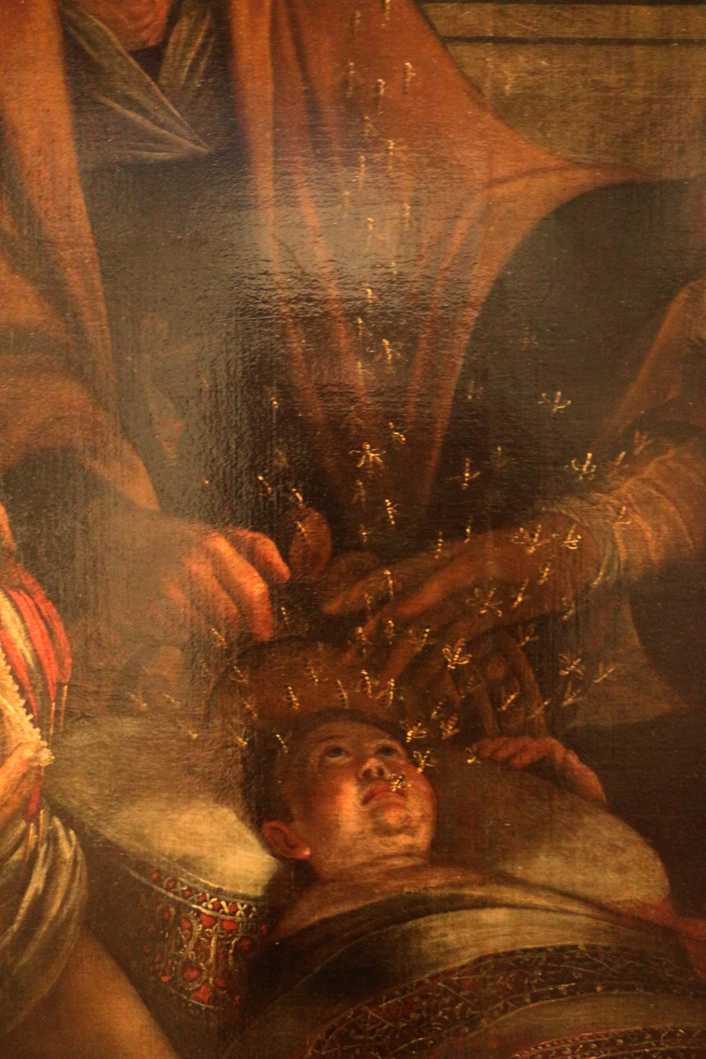 Pinacoteca del Castello Sforzesco